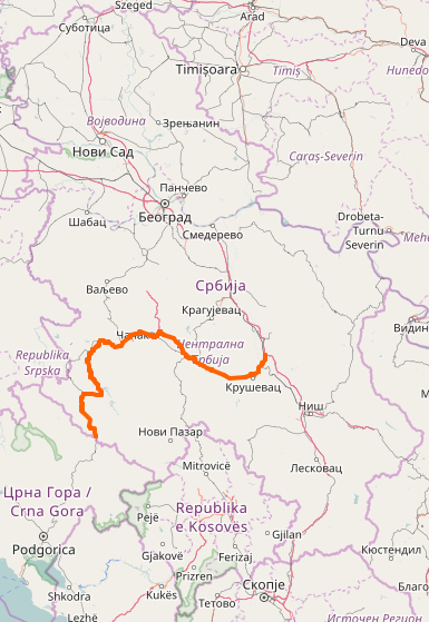 OpenStreetMap of State Road 23 in Serbia.